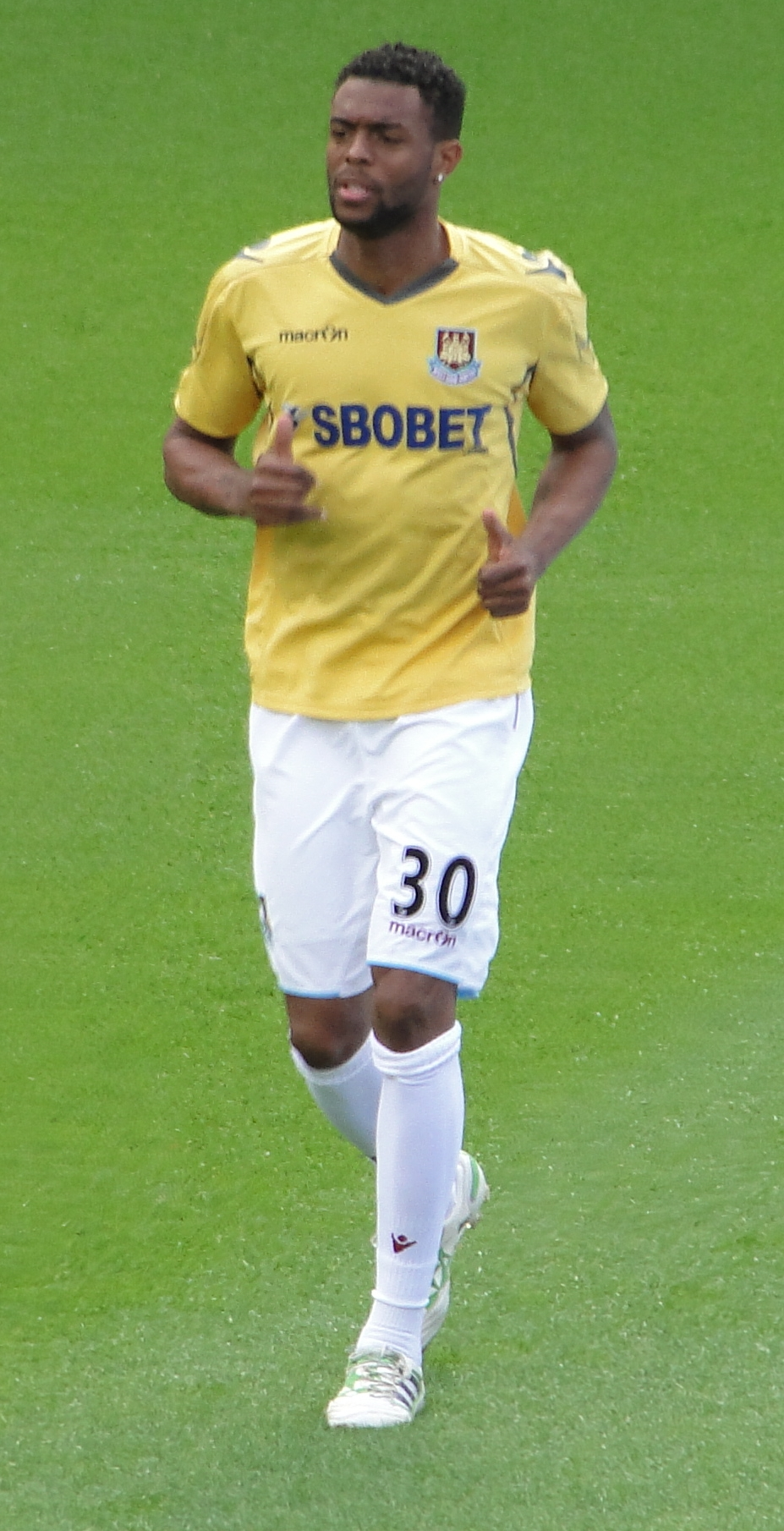 West Ham United player, Frédéric Piquionne warming-up before a game at The Boleyn Ground, May 2011